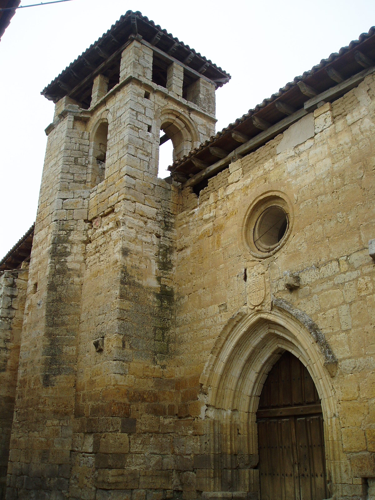 Benedictine monastery of San Miguel, in Támara de Campos, Palencia.